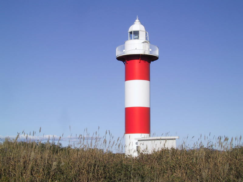 Ishikari lighthouse, Ishikari, Hokkaido, Japan